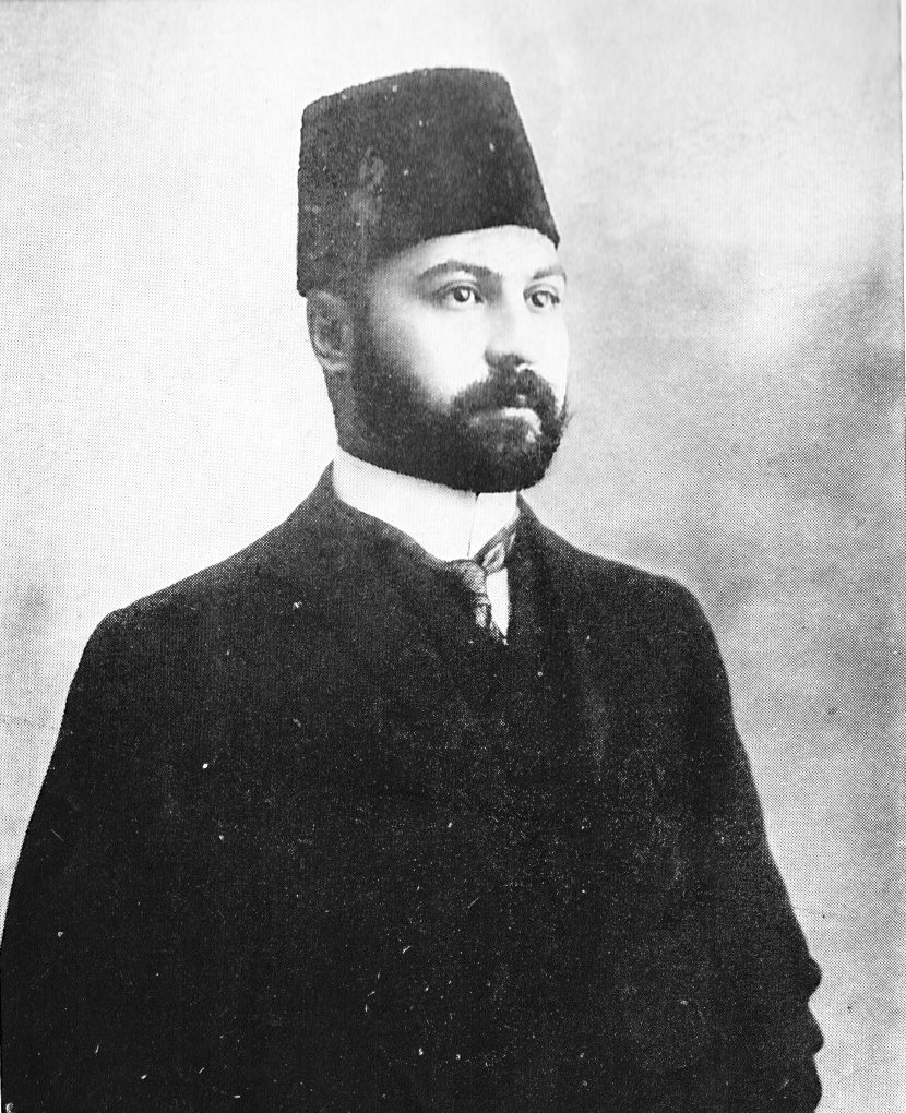 Hassan Pirnia, Minister of Justice, 1909